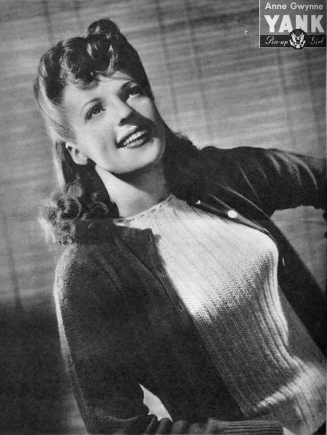 Pin-up photo of Anne Gwynne for the Dec. 3, 1943 issue of Yank, the Army Weekly, a weekly U.S. Army magazine fully staffed by enlisted men.